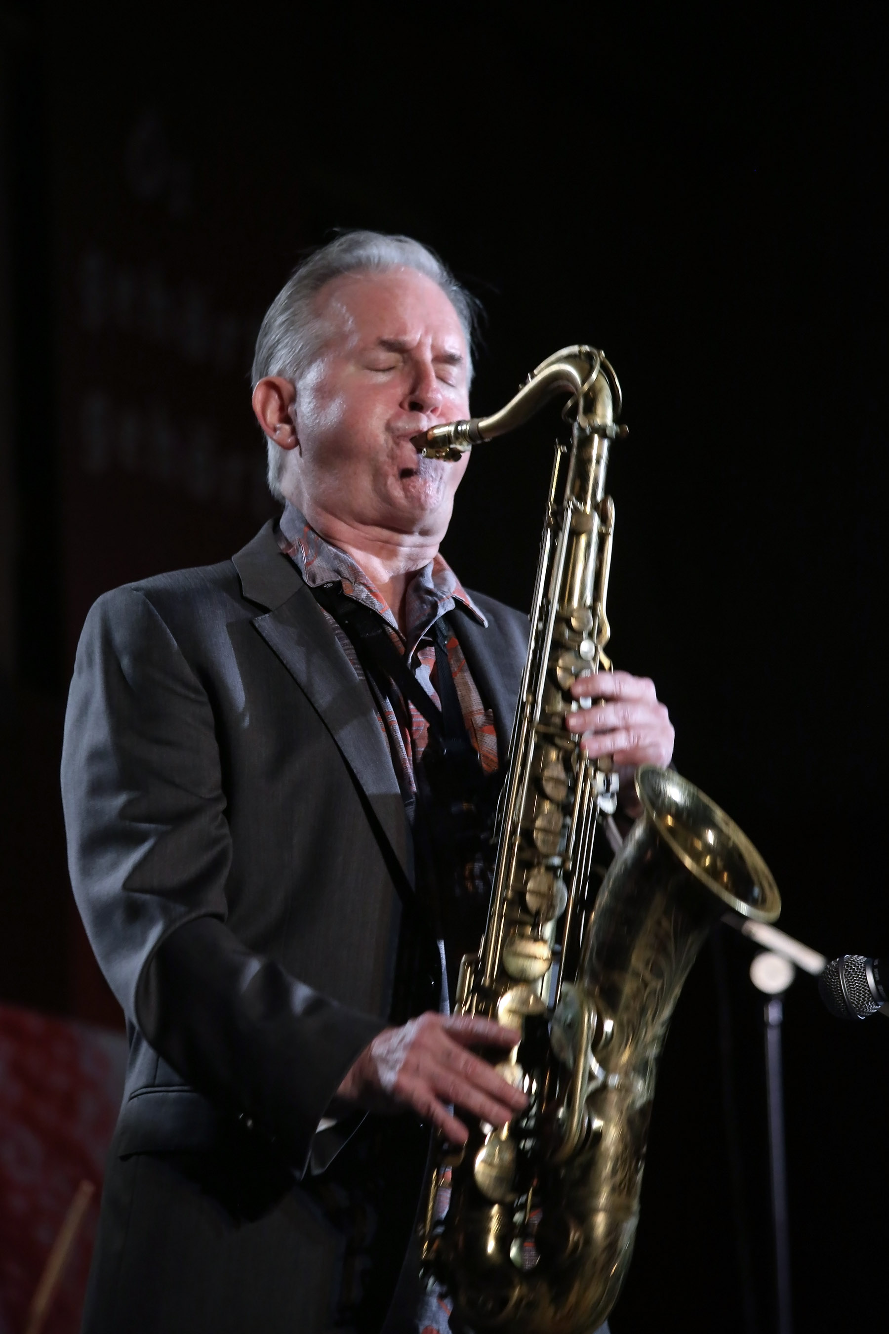 Scott Hamilton (sax), Andrea Pozza (p), Aldo Zunnino (b), Alfred Kramer (dr) - INNtöne Jazzfestival (Diersbach, Upper Austria)